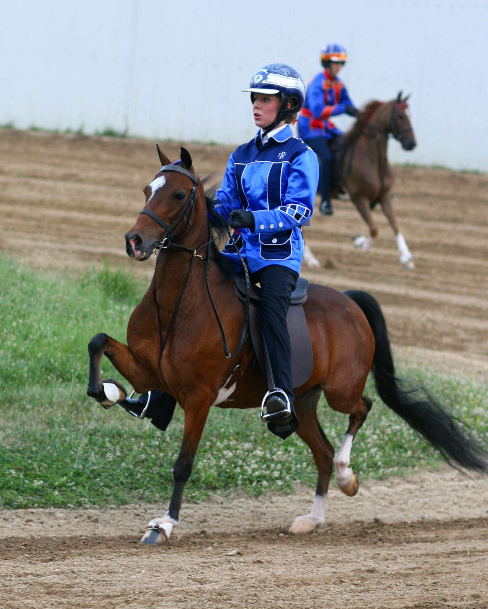 An example of a hackney road pony showing under saddle at the 2007 Lawrenceburg Fair Horse Show in Kentucky on 30 June, 2007.